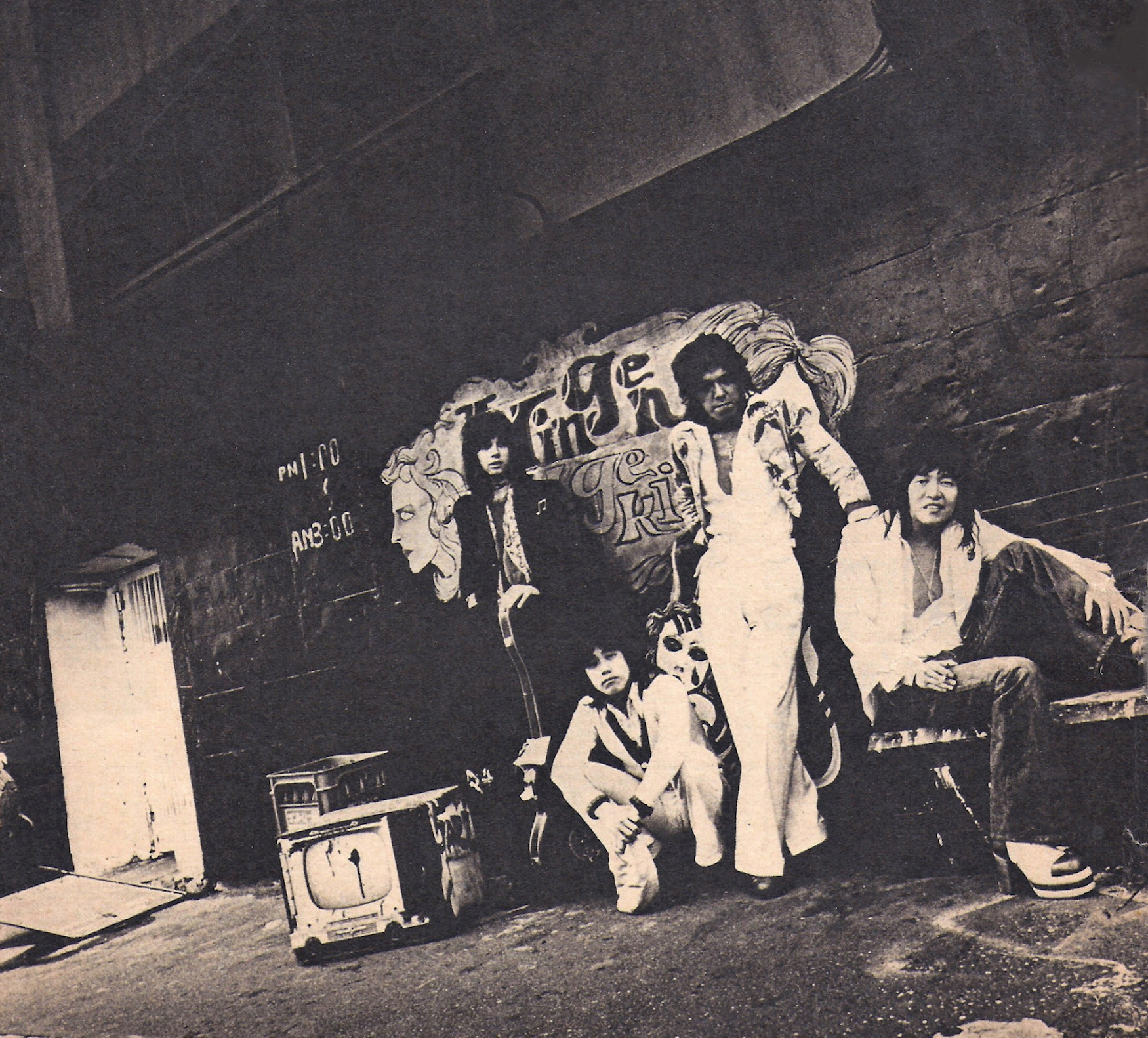 Vodka Collins photo